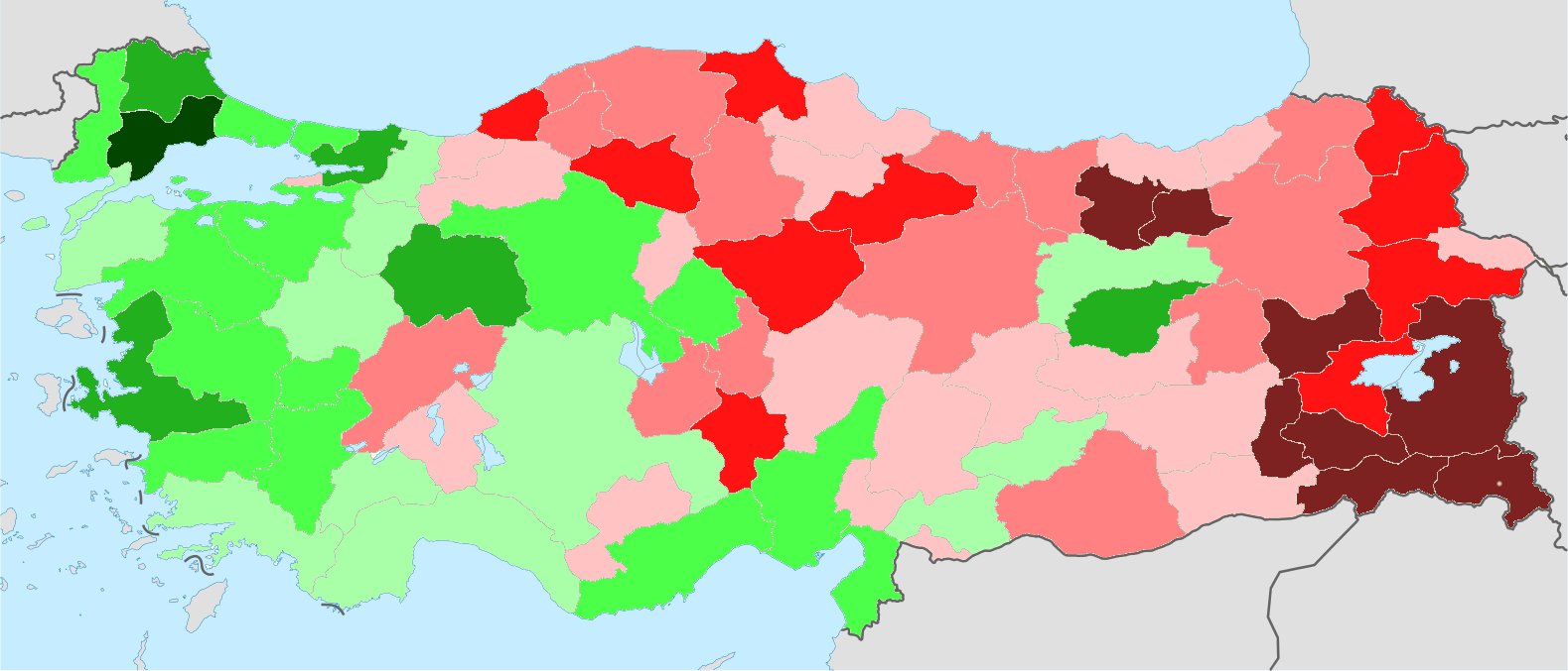 Data from Turkstat